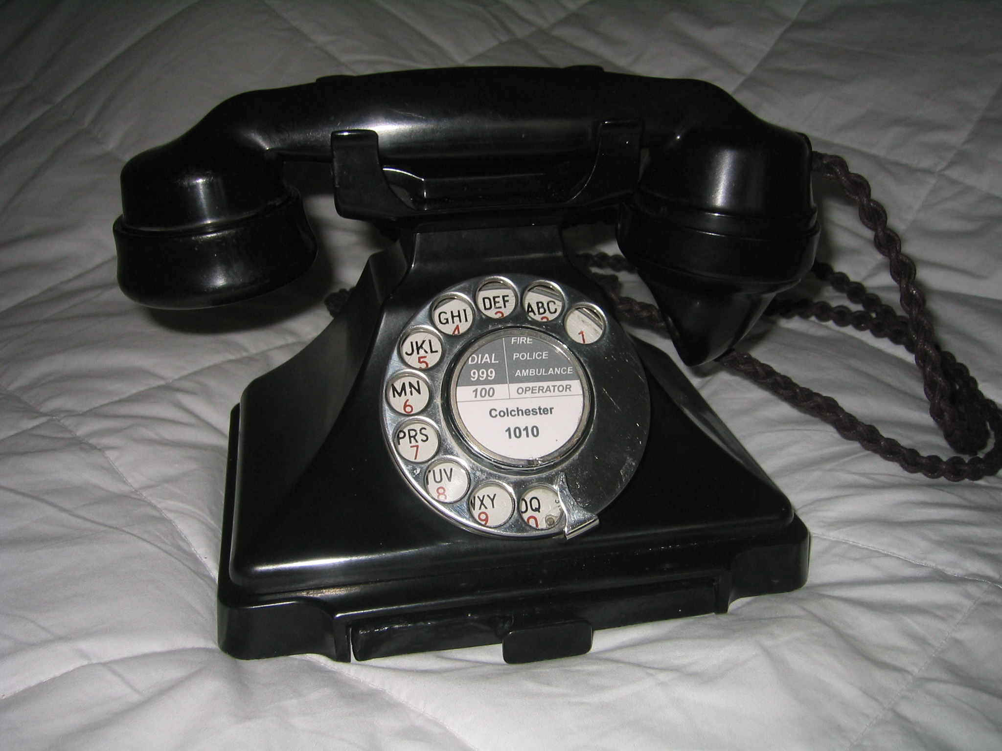 GPO 232 Telephone: Deben Dave (talk) 17:43, 18 August 2009 (UTC)